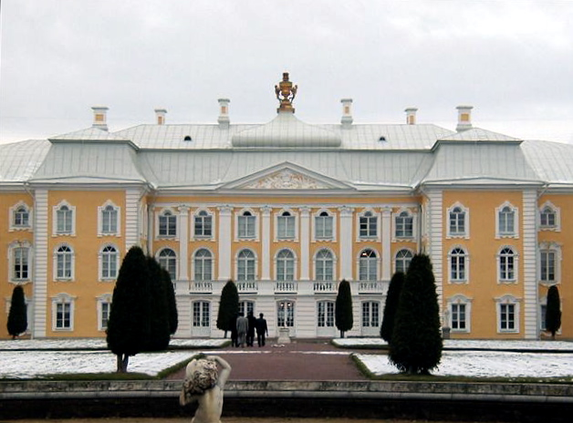 Peterhof Front view (the way one arrives...)